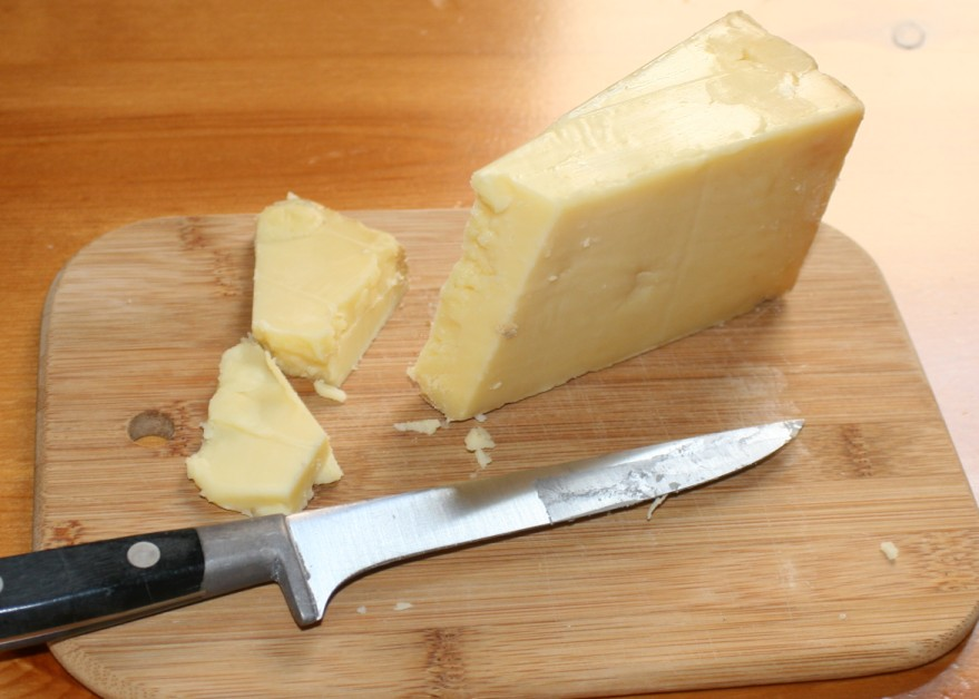 A wedge of Unpasteurised West Country Cheddar cheese, made in Somerset (with PDO.) and for some bizarre reason, sliced with a boning knife